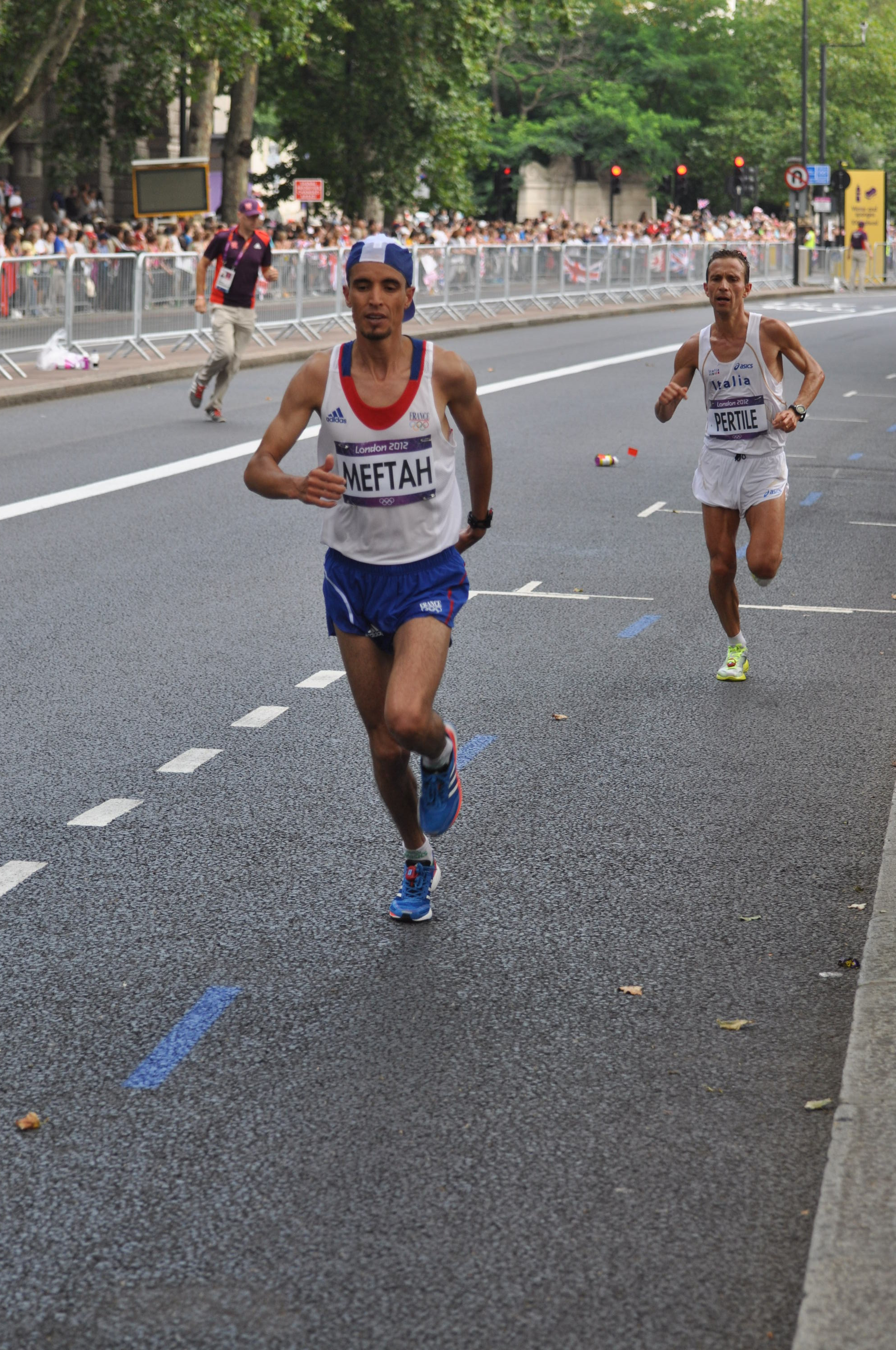 2012 Olympic Marathon